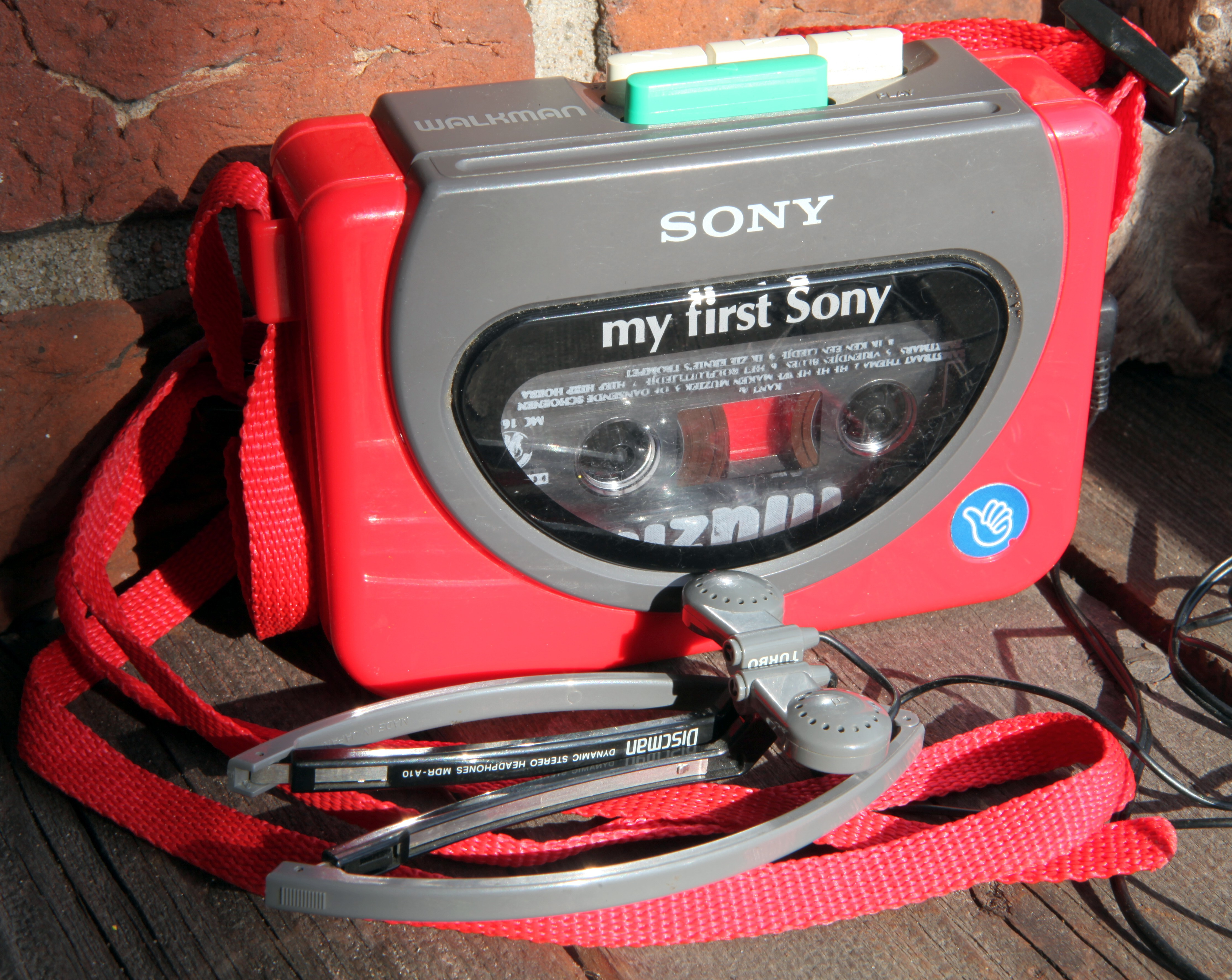 Sony Walkman WM-3000 and Sony Discman MDR-A10 from 1990.